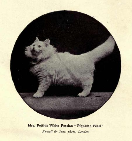 "PIQUANTE PEARL was bred by Mrs. Pettit from her well- known White stud cat King of the Pearls and Beautiful Pearl. This lovely female is quite the most beautiful specimen of a long-haired White Persian, having glorious blue eyes with a full coat of finest texture. Piquante Pearl isawinner ofnumerous istprizes, championships, medals, and specials at the Crystal Palace and Westminster Shows. Some of her lovely kittens have been exported to America"